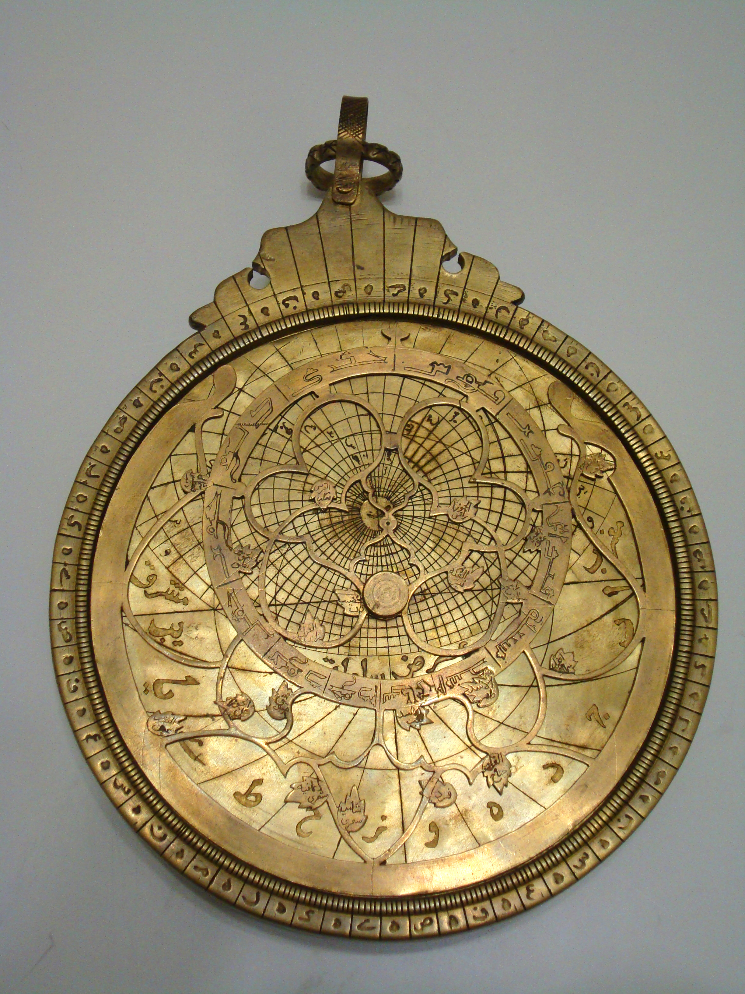 Brass Iranian Astrolabe, Made by Jacopo koushan in Tabriz.